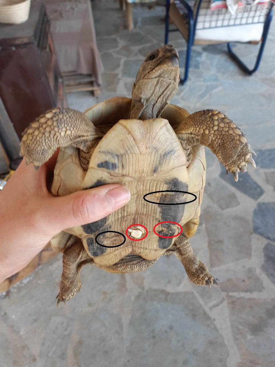 A wild male Hermann's tortoise with ongoing shell rot (circled in red) and scars from previous shell rot (circled in black) on the plastron. A hole in the shell from the shell rot has been treated with water soft perodixe and propolis salve